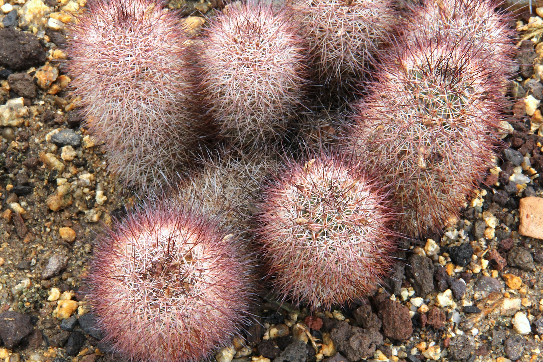 Mammillaria albicans